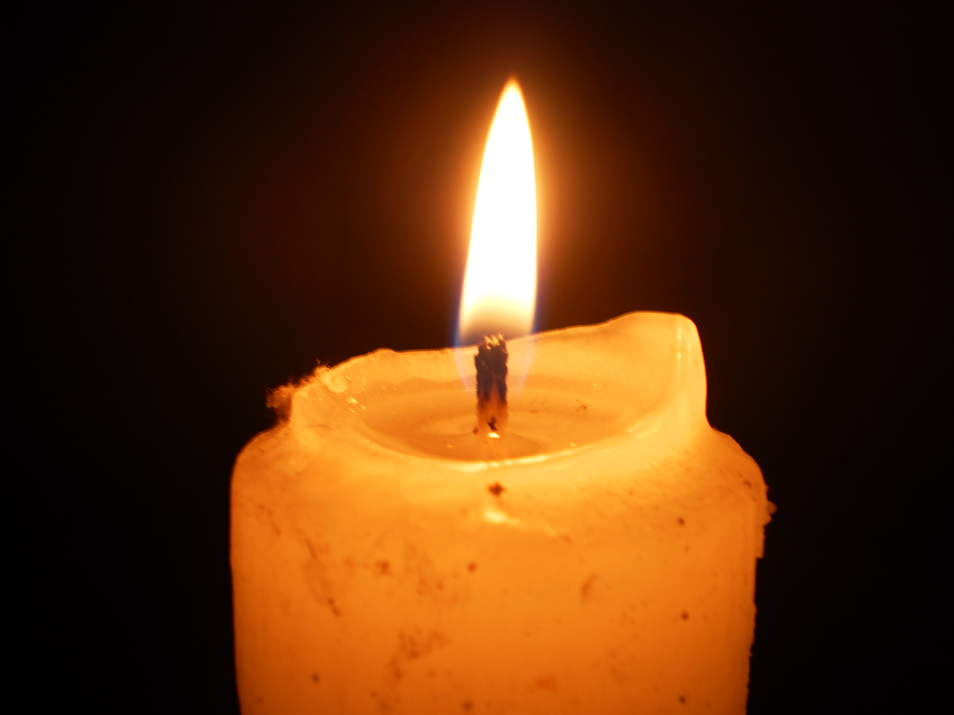 lighted candle at night -Kerala